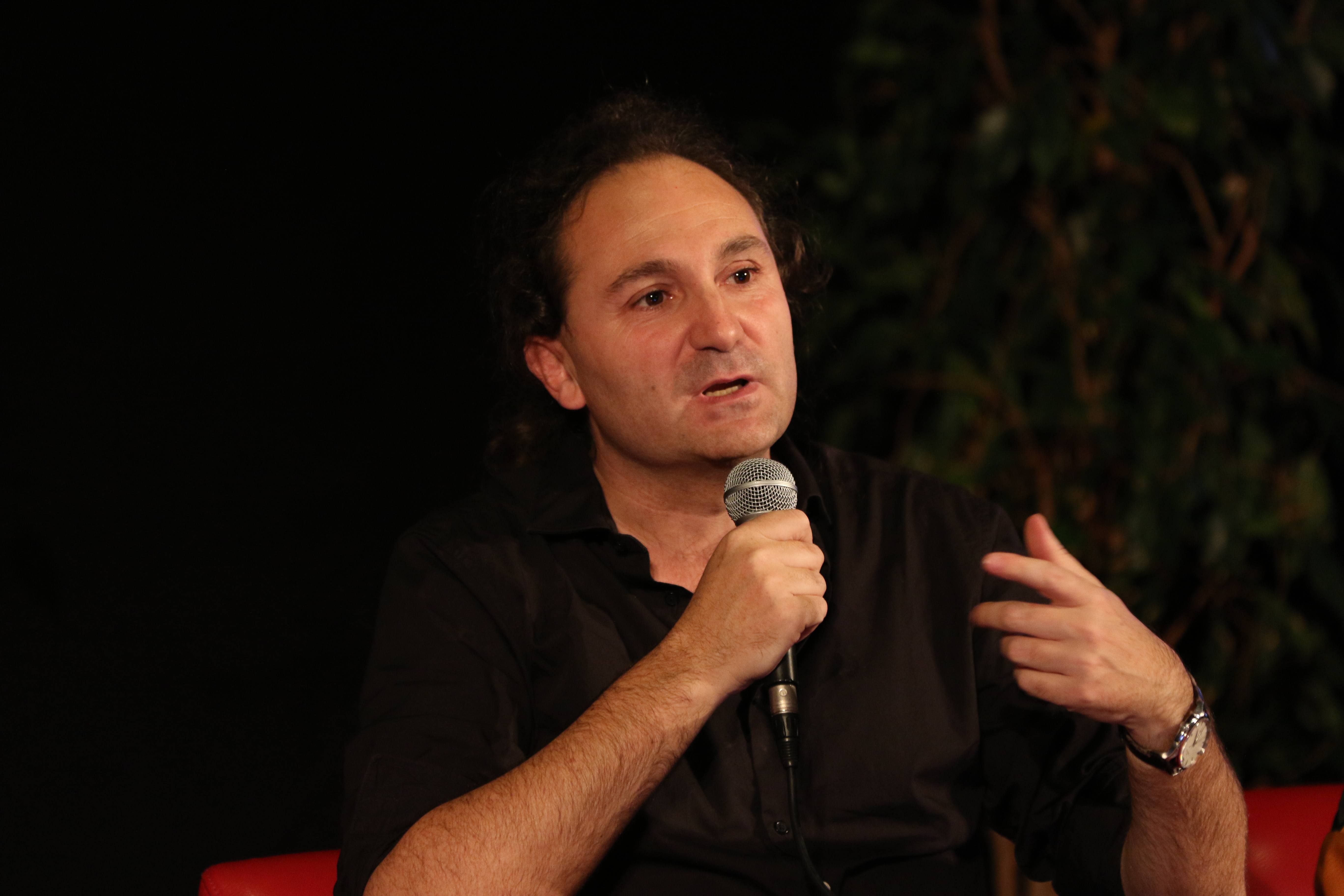 photograph taken at the 2015 edition of the "Utopiales" of Nantes.